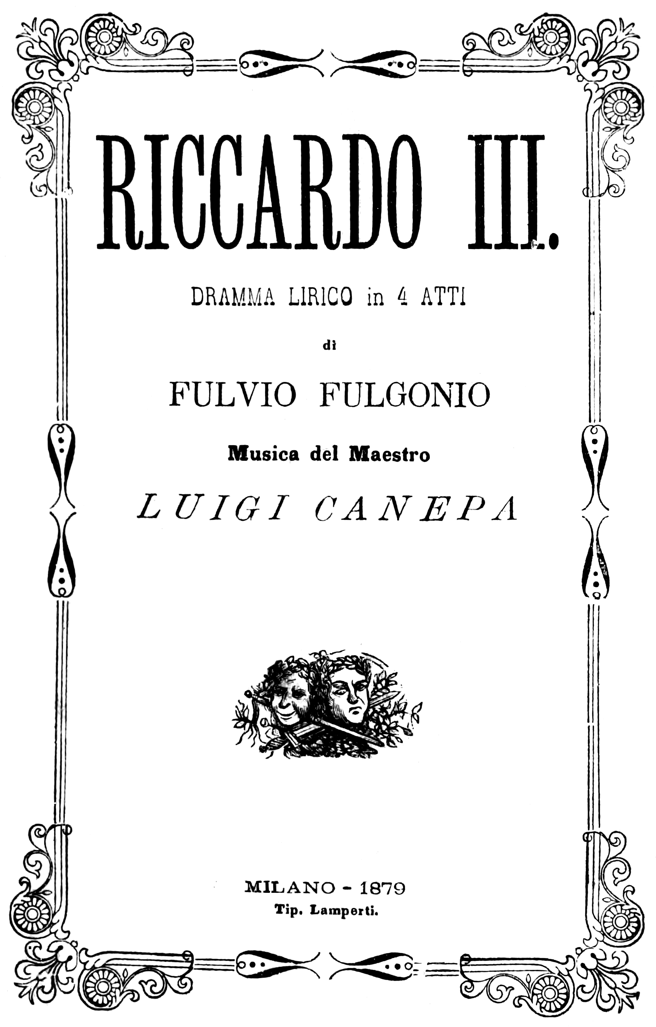 Luigi Canepa - Riccardo III - titlepage of the libretto - Milan 1879